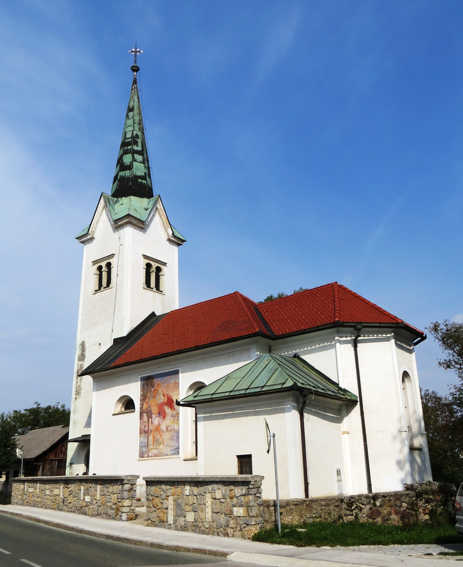 Saint Michael's Church in Drulovka, Municipality of Kranj, Slovenia